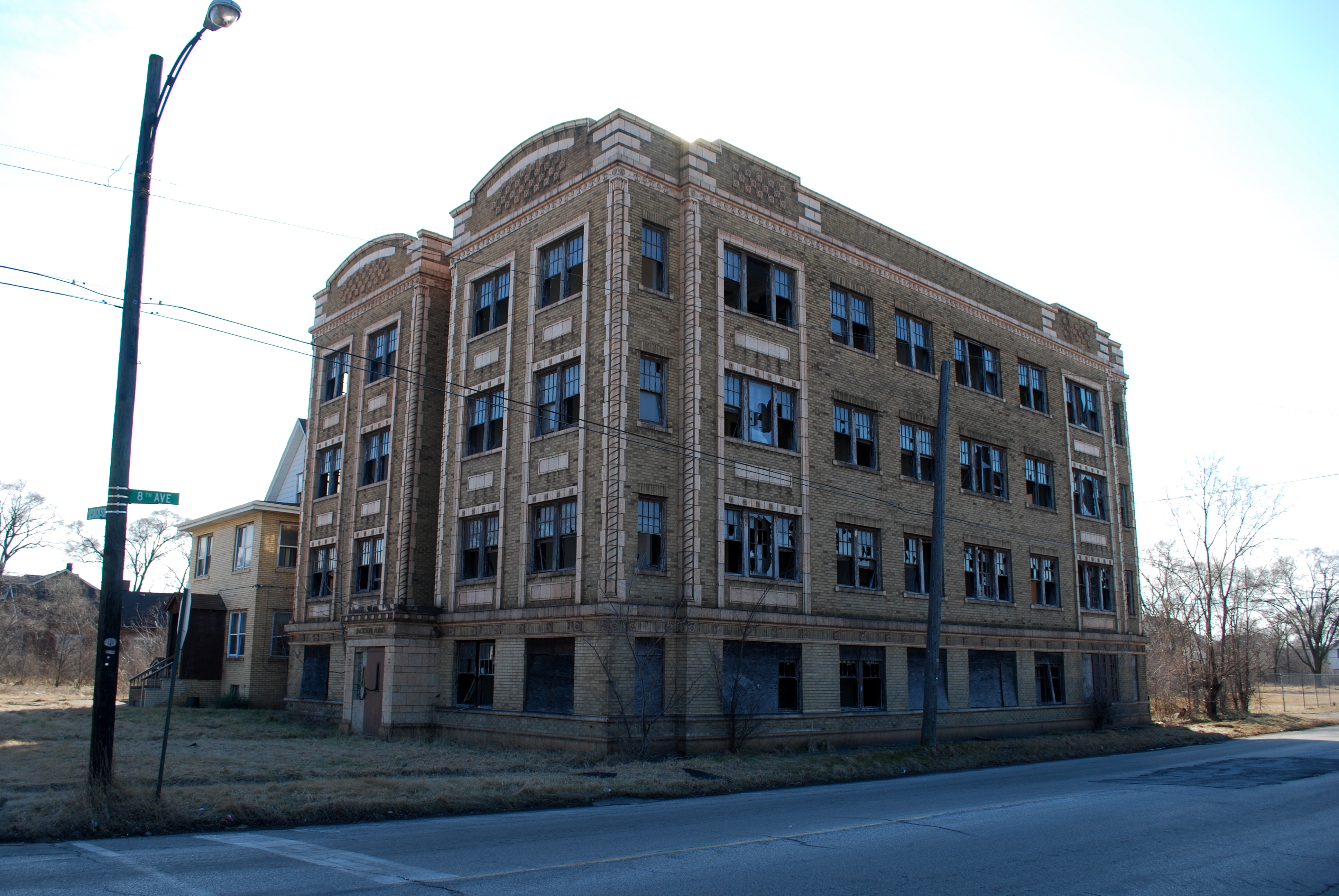 Jackson Arms apartment